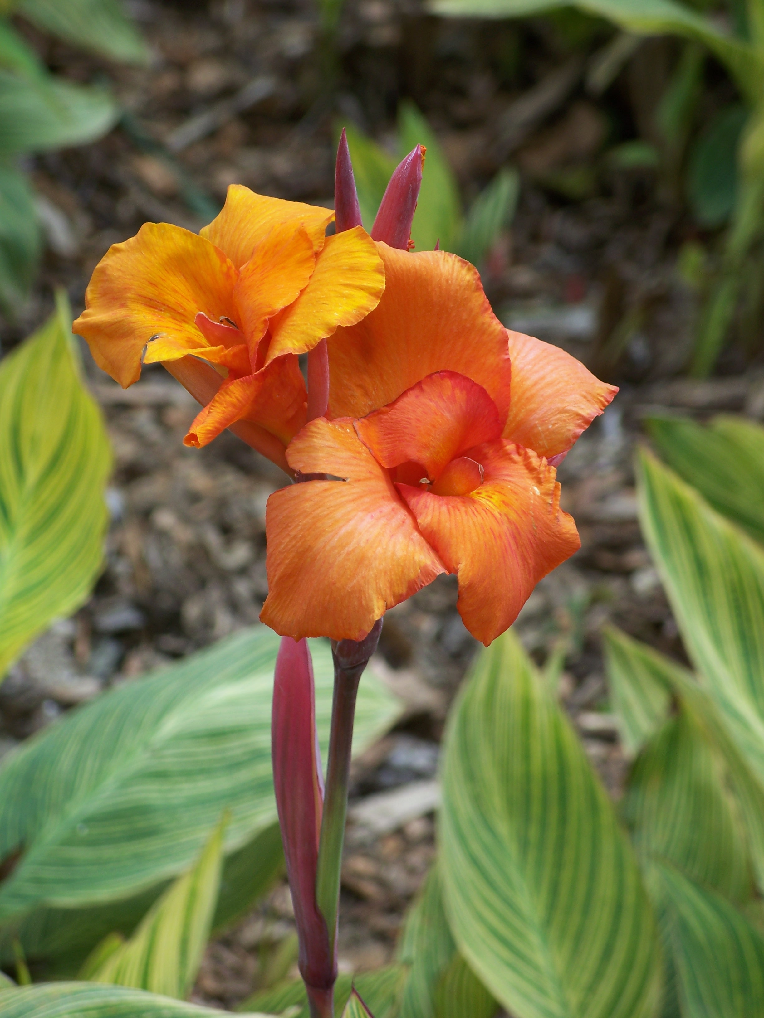 Canna ×generalis in the Albert Polasek Gardens in Winter Park, Florida